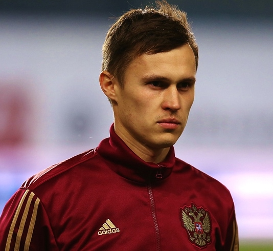 Aleksandr Ryazantsev